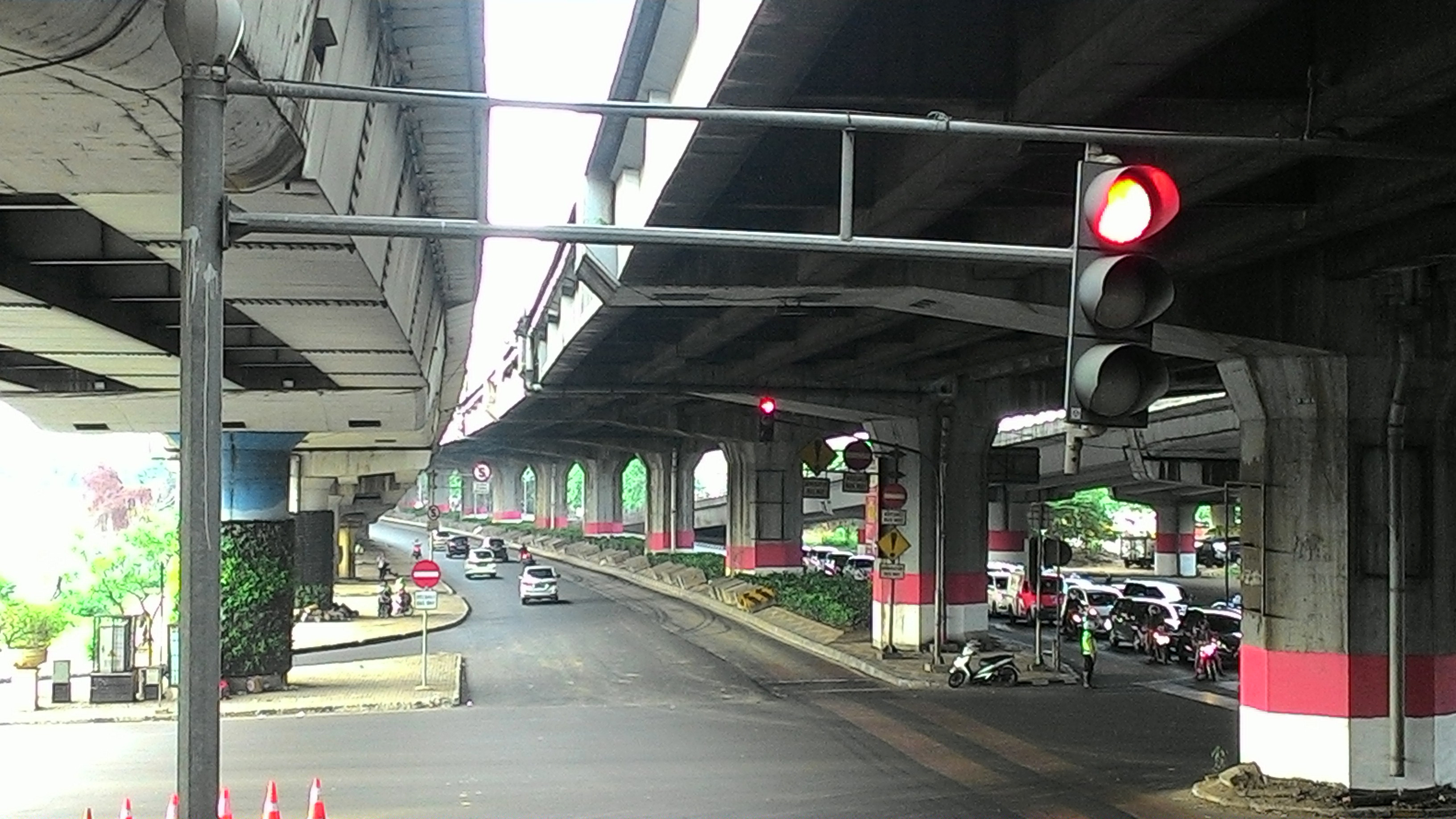 Jalan Layang (elevated toll road) on Jalan Ahmad Yani by pass, Jakarta, Indonesia. On Pramuka-Pemuda-Bypass intersection traffict light. The elevated road construction was using Sosrobahu construction technique that rotated the beam-supporting bar on each pylon.